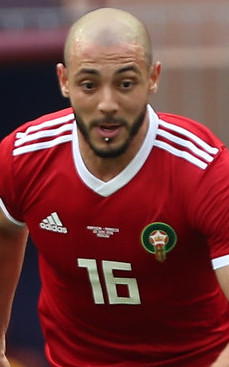 Portugal-Morocco match, 2018 FIFA World Cup